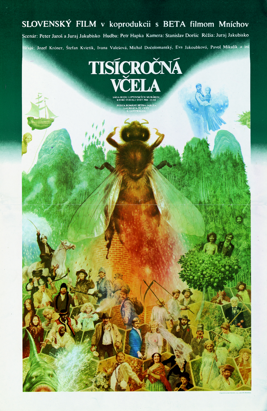 Official film posterSlovenčina: Oficiálný filmový plagát